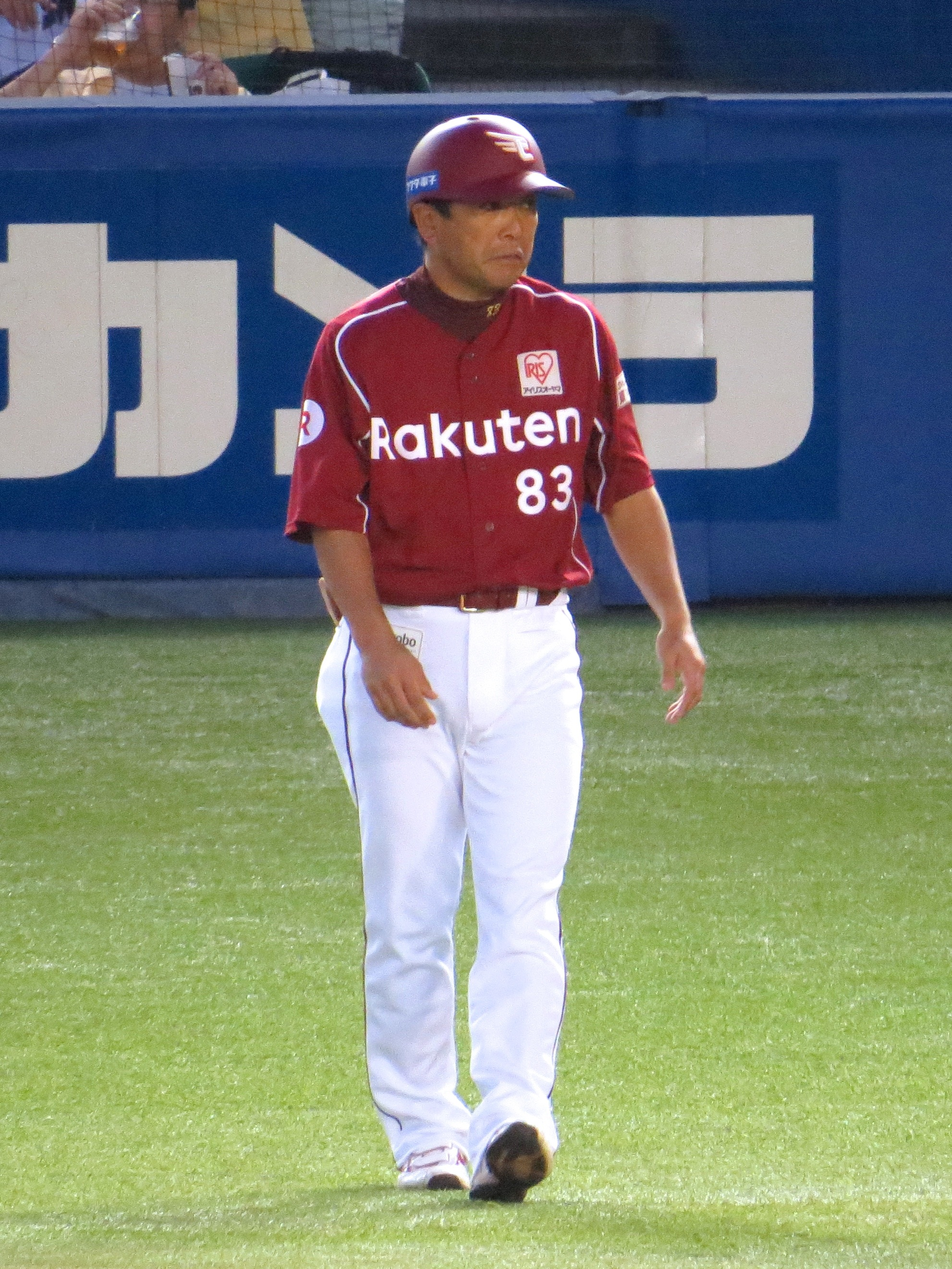 Koichi Isobe, coach of the Tohoku Rakuten Golden Eagles, at Chiba Marine Stadium.